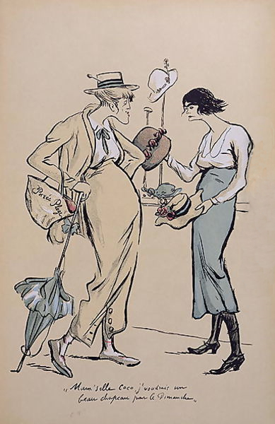 Caricature of Coco Chanel in the album "Le grand monde à l'envers"